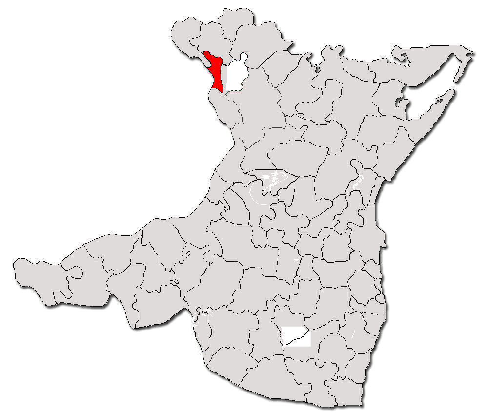 Contour map of Ghindaresti commune